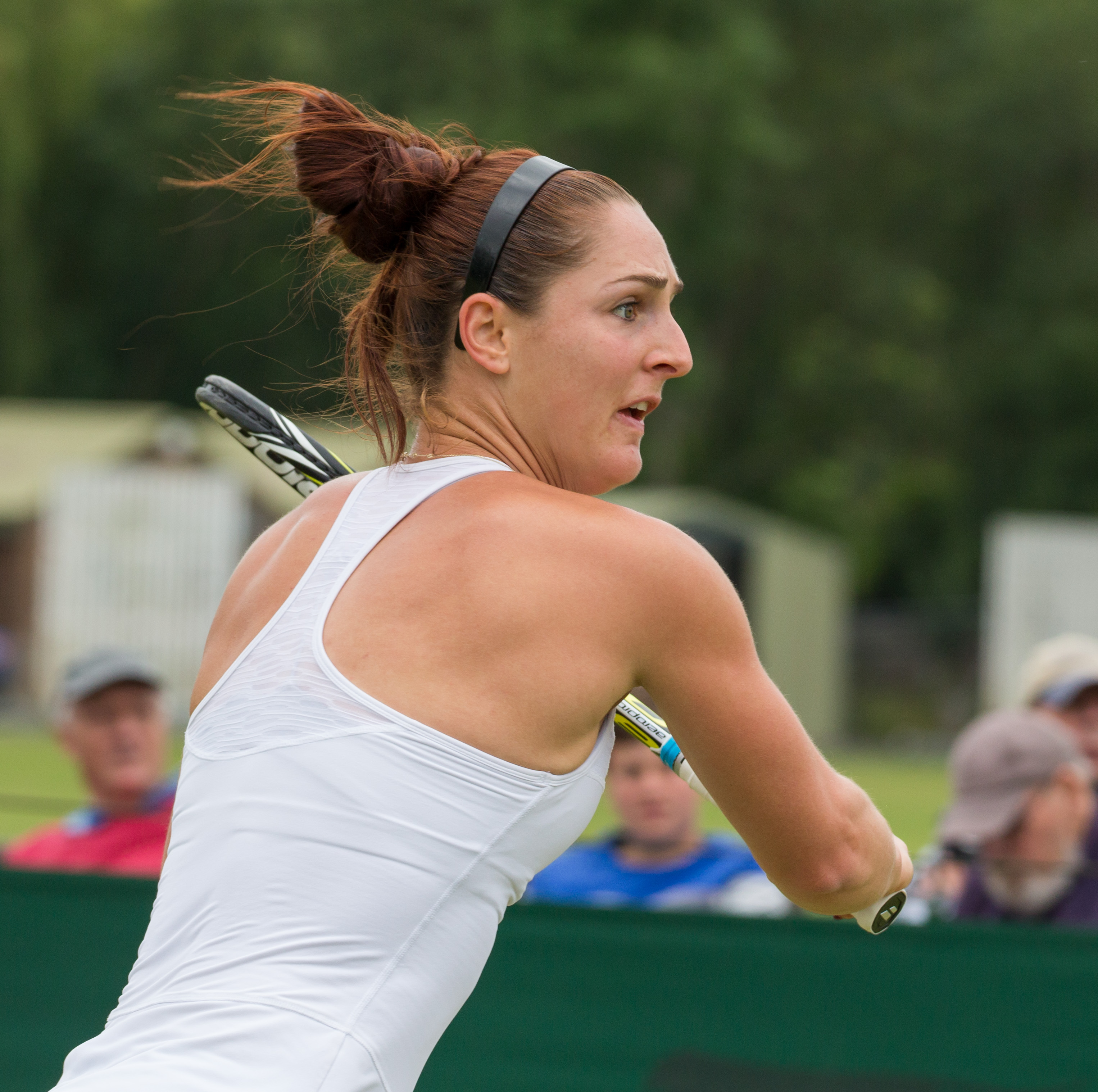 Gabriela Dabrowski competing in the first round of the 2015 Wimbledon Qualifying Tournament at the Bank of England Sports Grounds in Roehampton, England. The winners of three rounds of competition qualify for the main draw of Wimbledon the following week.